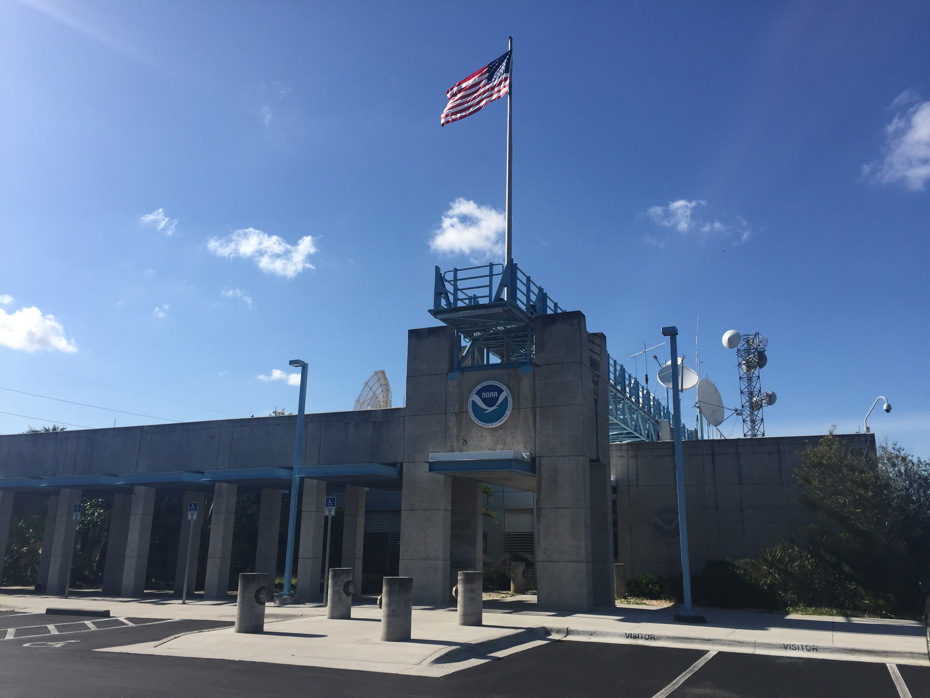 The main entrance of the National Hurricane Center